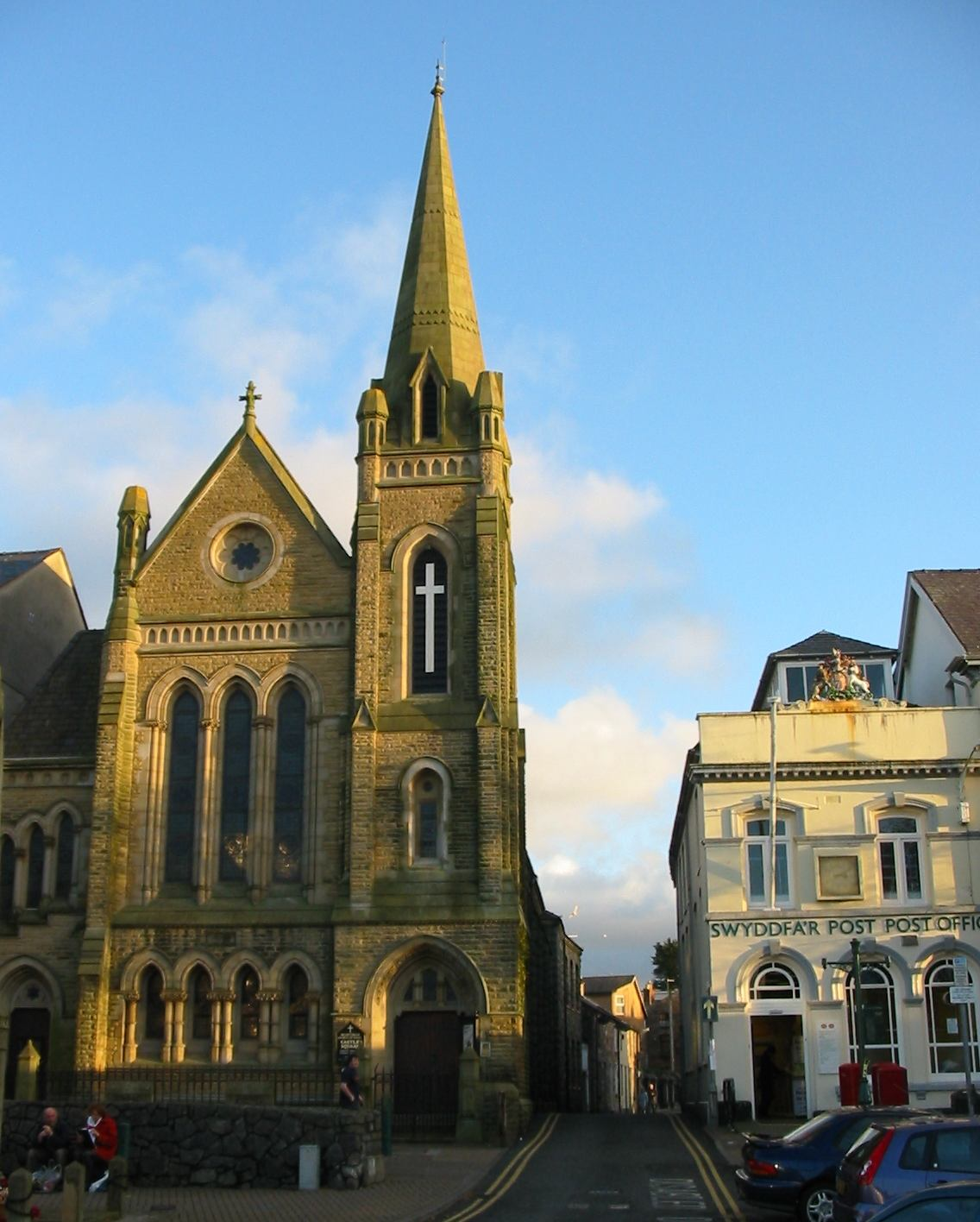 Church and post office, Caernarfon